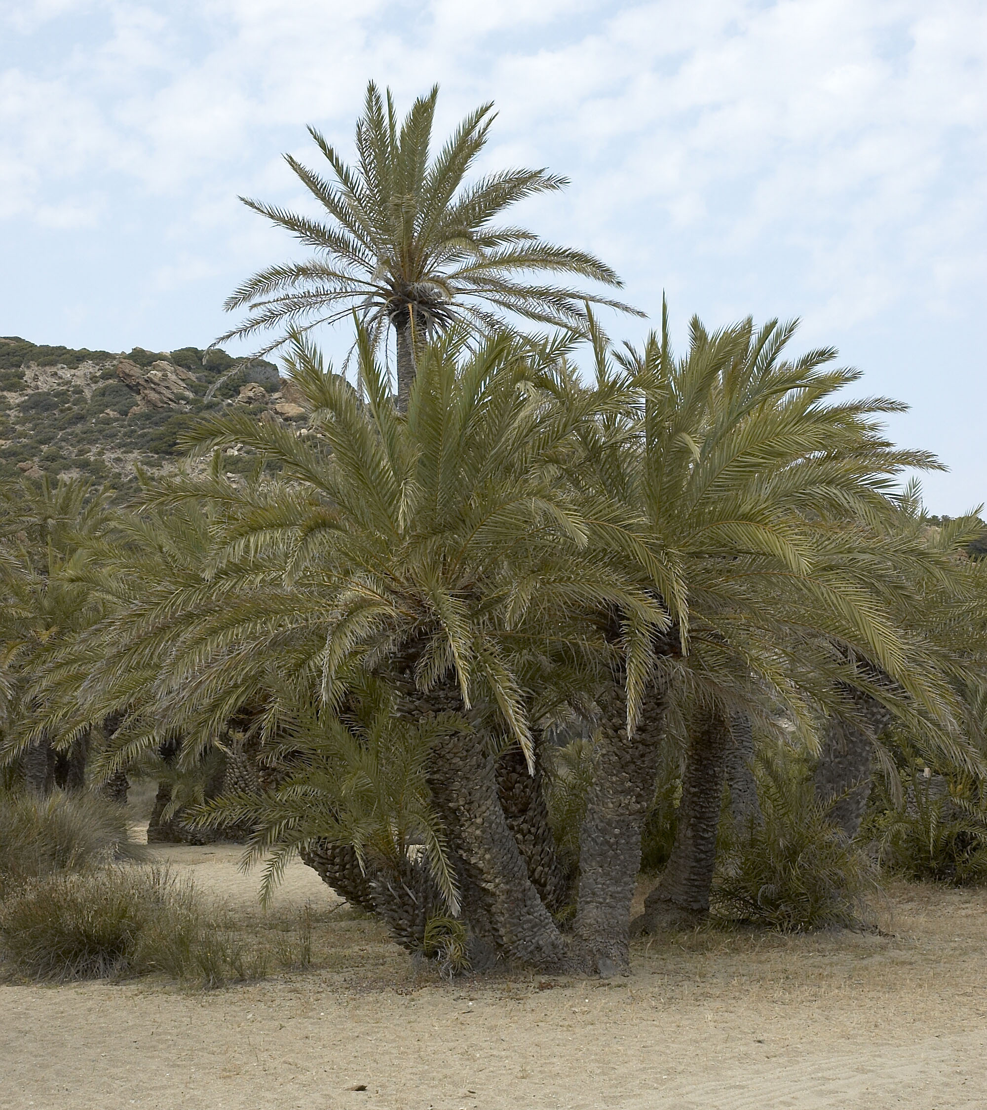 Phoenix theophrasti at the beach in Vai, Crete